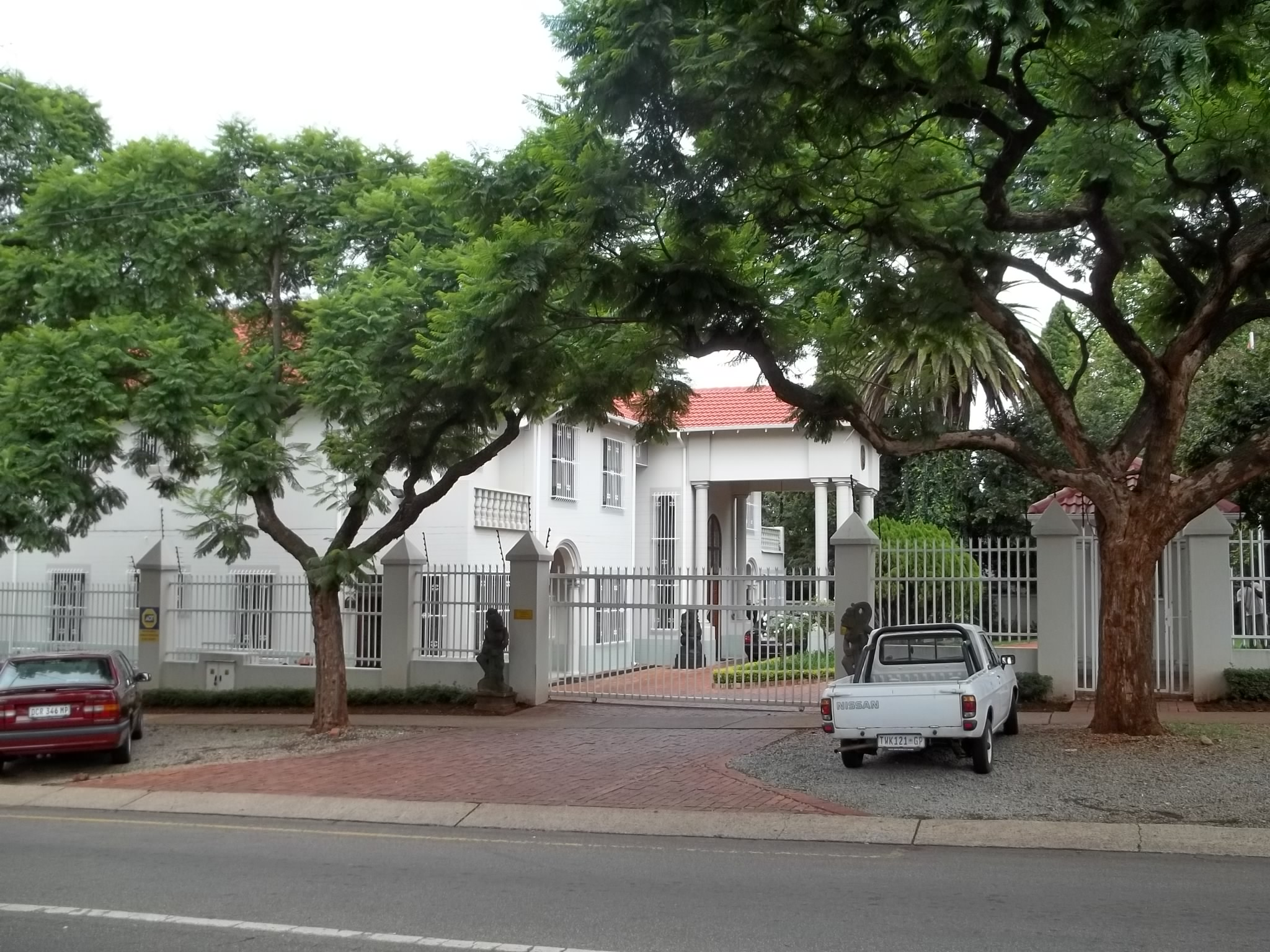 ID in ZA